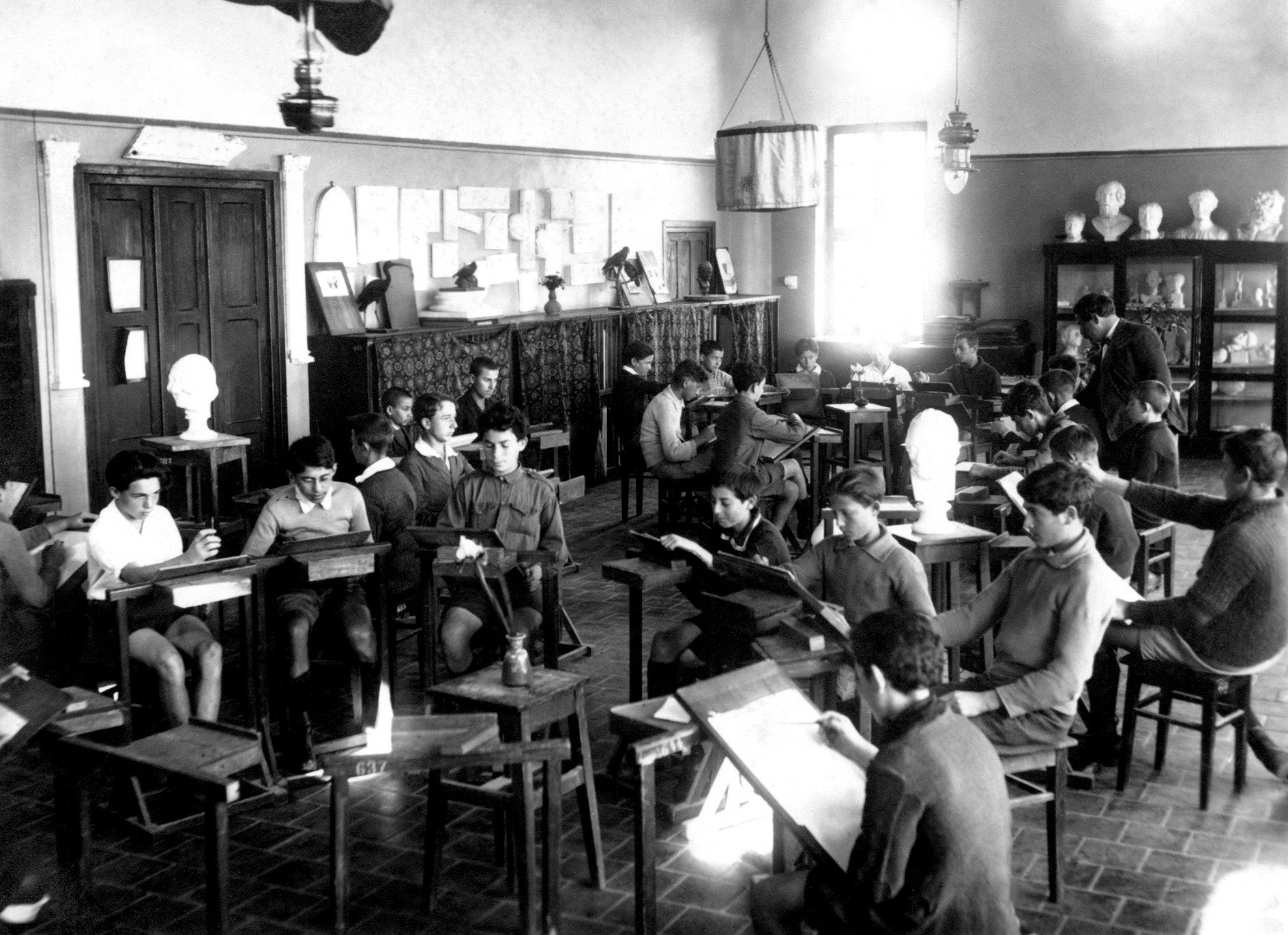 Art teacher Yitzchak Syrkin (1883–1938) with his students in the drawing hall in the Hebrew Reali School in Hadar, Haifa. 1920 in the British Mandate of Palestine.